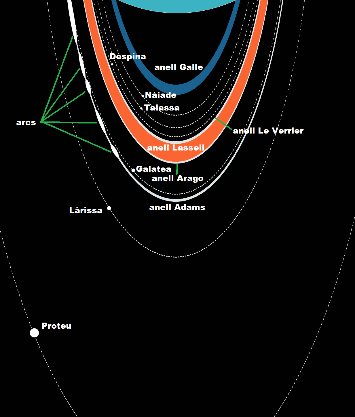 The scheme of the ring-moon system of the planet Neptune. The proportions are real.